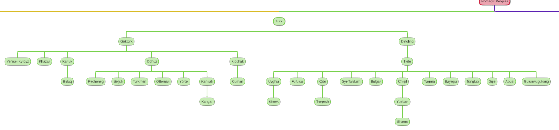 Turks